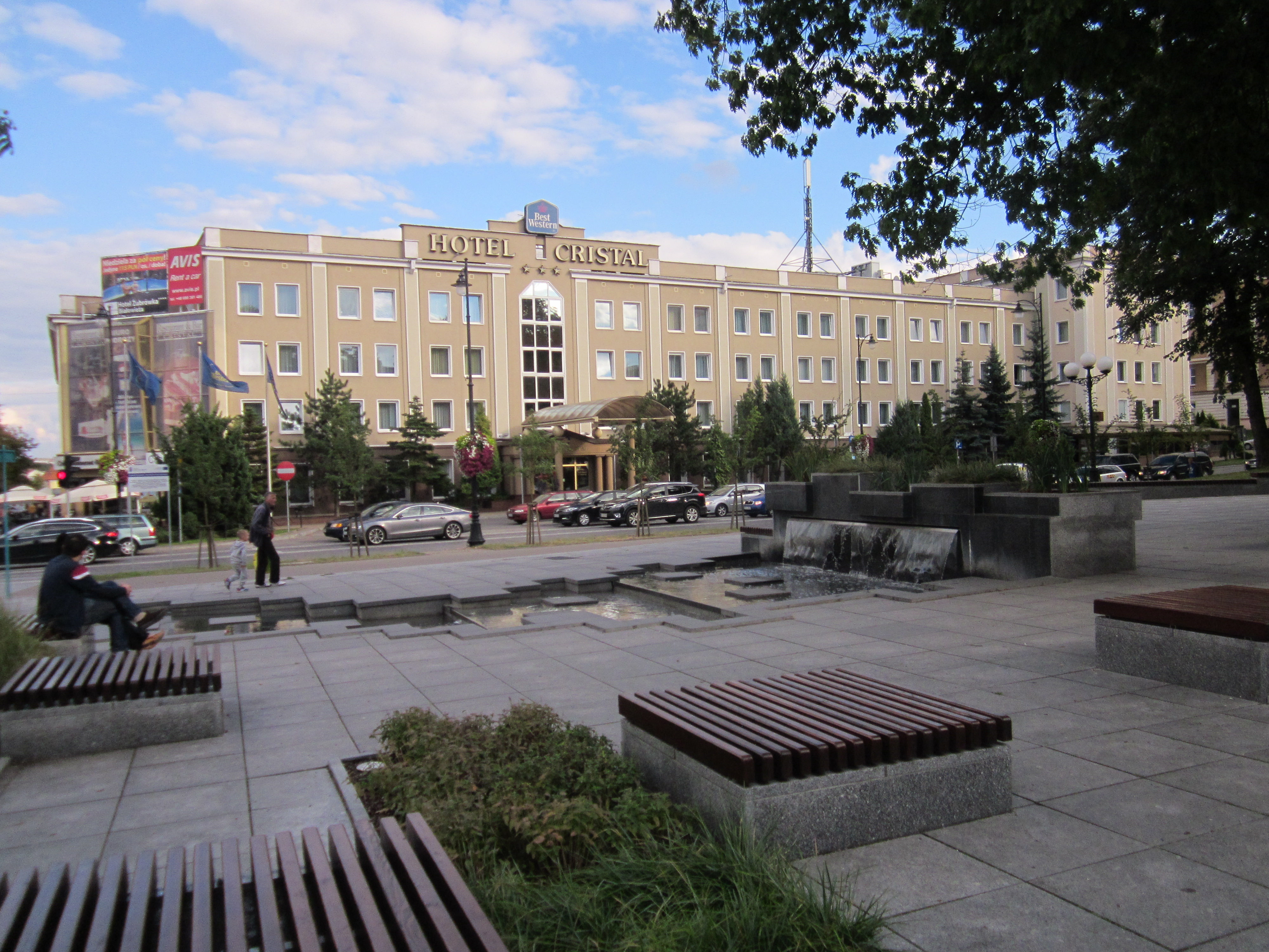 Fountain at Constantinus I Magnus Square in Białystok. Hotel Cristal